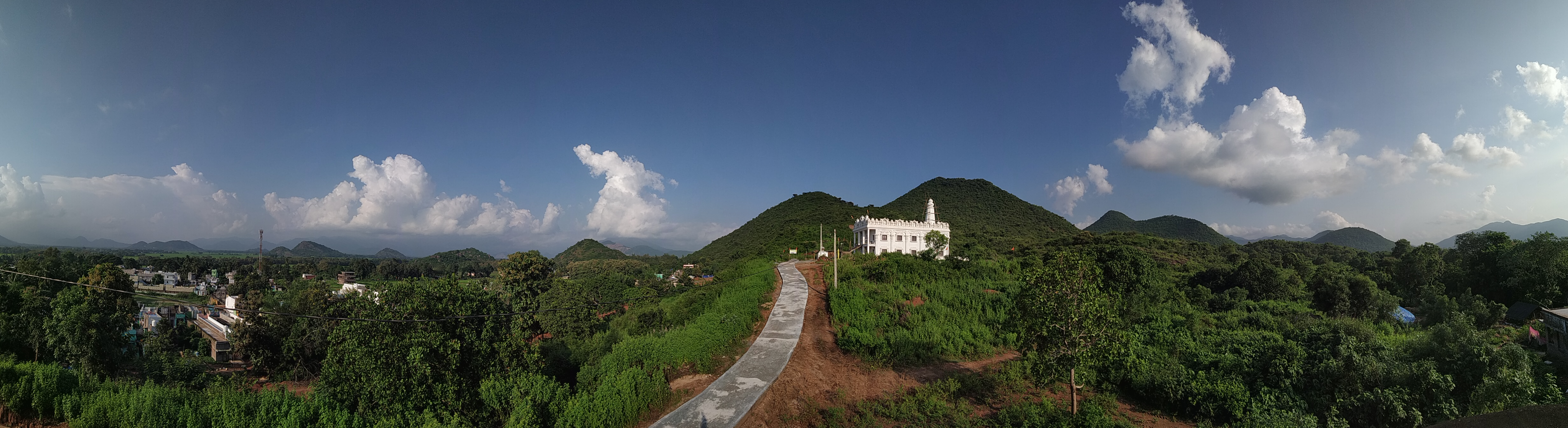 ....Om sai…. These words have been written here on a pleasure of being a devote of god. being blessed is the result of the temple which has been built and now today it is the place where all get their peace of mind. before exploring about the sense and beauty of the temple, firstly let us take a short and deep glance at the village as it has been the contemporary of shiridi. Exactly more than half way down to our indian sub continent , in the state of Andhra Pradesh towards the border of Orissa ,there is a small village named meliaputti. This has got a great history because it has been ruled by a king named gajapathi raju. And river mahendra tahnaya flows across the village by connecting many villages like itself. And here this is the place where Sai Giri is located this temple has been built exactly at the heart of the village building a temple is not an easy thing . it includes the hard work of many minds. Each and every person get inspired after seeing this work. The work which has been implemented there includes the creative architectural work and beauty between the nature.